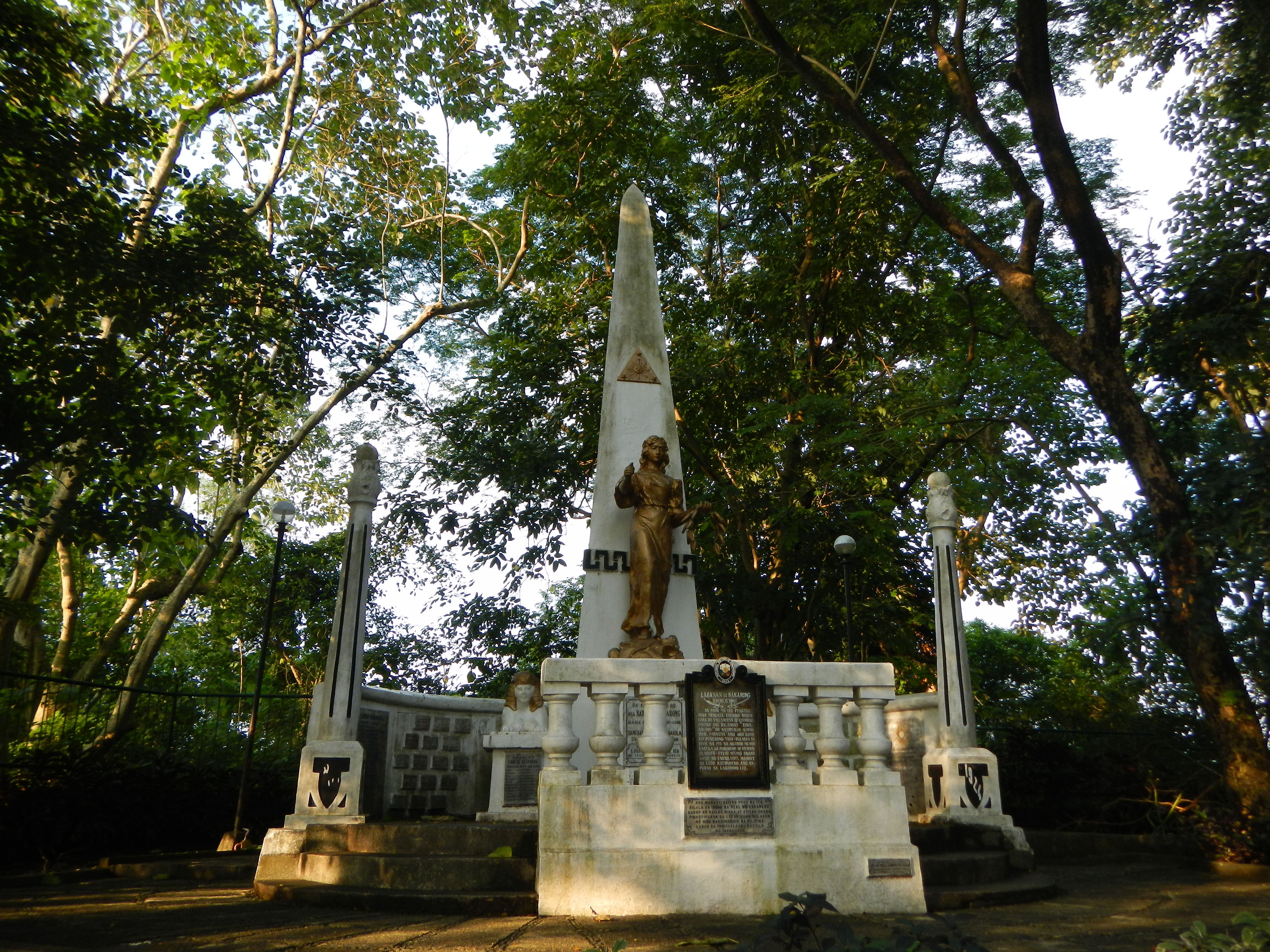 Inang Filipina Shrine in Kakarong de Sili, wherein about 6,000 Katipuneros from various towns of Bulacan headed by General Eusebio Roque, better known as "Maestrong Sebio" that the "Kakarong Republic" was organized shortly after the cry of Balintawak. "Kakarong Republic" was the first and truly organized Revolutionary Government established in the country to overthrow the Spaniards antedating event the famous "Malolos" and the "Biak-na-Bato Republic". In the biography of General Gregorio del Pilar entitled "Life and Death of a Boy General" written by Teodoro Kalaw, former director of the National Library, a fort was constructed at Kakarong de Sili that was like a miniature city. It had streets, an independent police force, a musical band, a factory of falconets, bolos and repair shops for rifles and cartridges. The "Kakarong Republic" had a complete set of officials with Canuto Villanueva as Supreme Chief and "Maestrong Sebio" as Captain-General of the Army. The fort was attacked and totally destroyed on January 1, 1897 by a large Spanish force headed by General Olaguer-Feliu. Gen. Del Pilar was only a lieutenant at that time and the Battle of Kakarong de Sili was his first "baptism of fire". The actual site of the "Battle of Kakarong de Sili" is now a part of the Barangay of Real de Kakarong where the Kakarong Lodge No. 168 of the Legionarios del Trabajo in memory of the 1,200 Katipuneros who perished in the battle erected a monument of the "Inang Pilipina" in 1924. No less than one of the greatest generals in the Philippines history, General Emilio Aguinaldo, visited this sacred ground in the late fifties.[1]